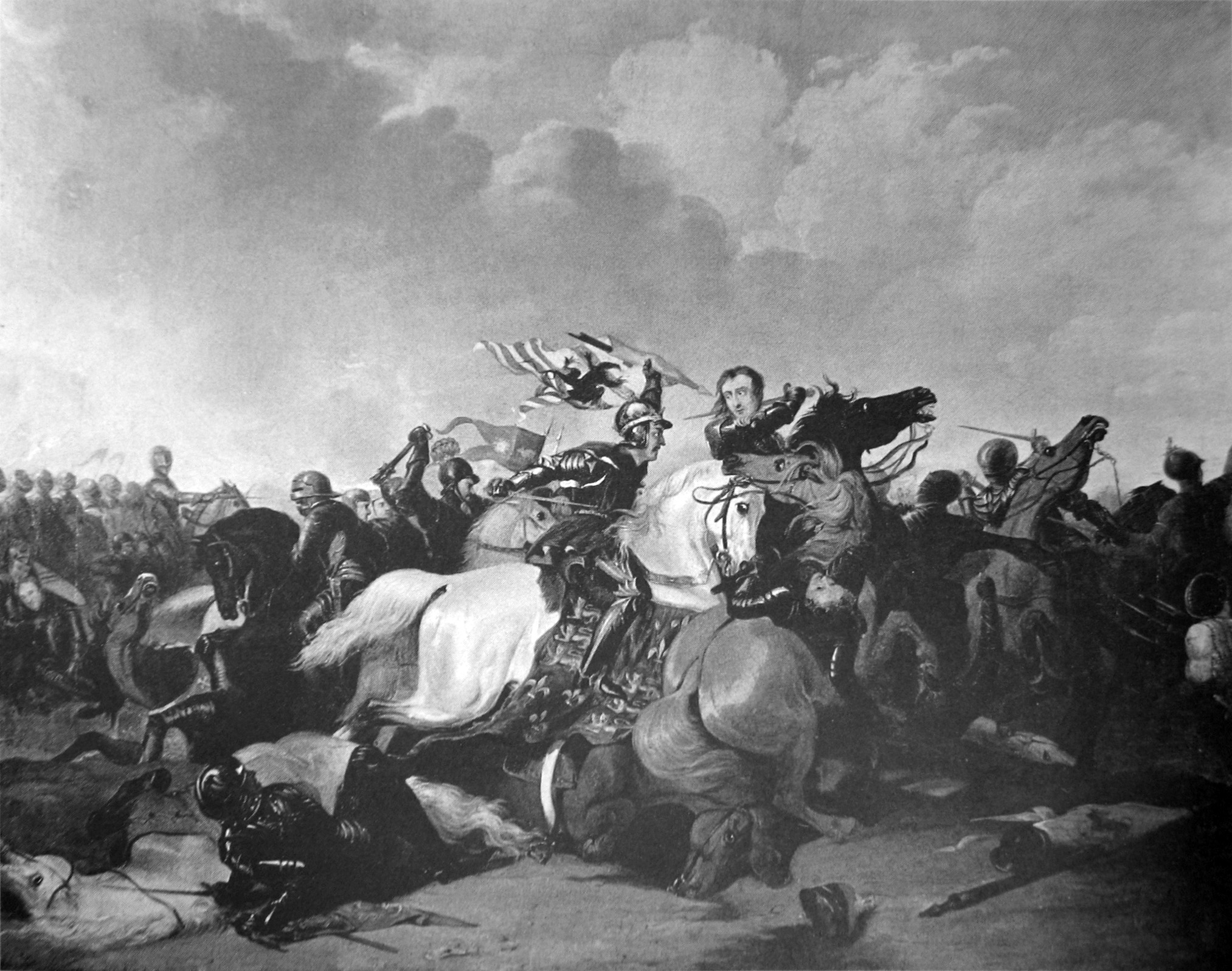 Bosworth Field: Richard III and Henry Tudor engage in battle, prominently in the centre